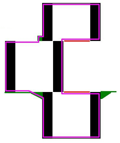 Magical trick